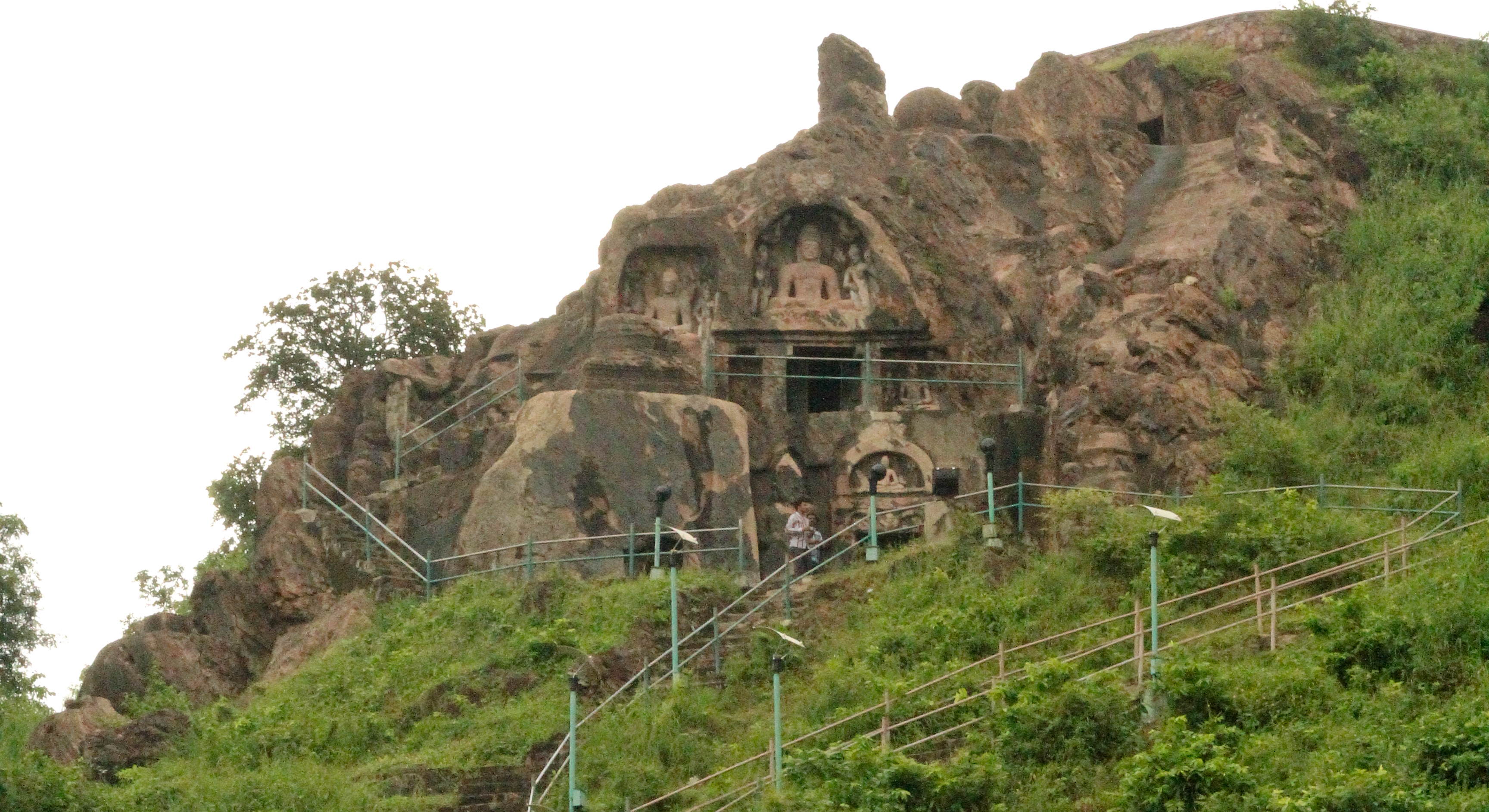 Buddhist rock-cut stupas, Dagabas and caves and the ruins of a structural Chaitya with its outbuilding and other Ancient remains on twoadjoining hills known as Bojjanna Konda.